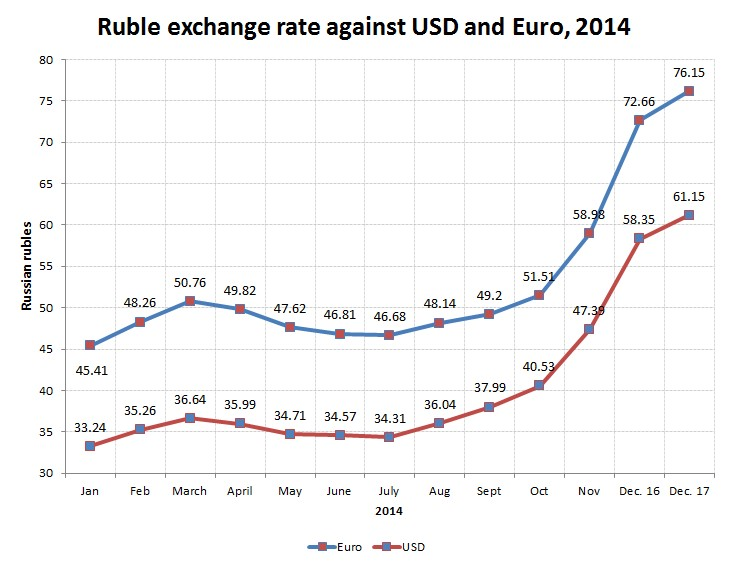 Ruble exchange rate against USD and EUR in 2014